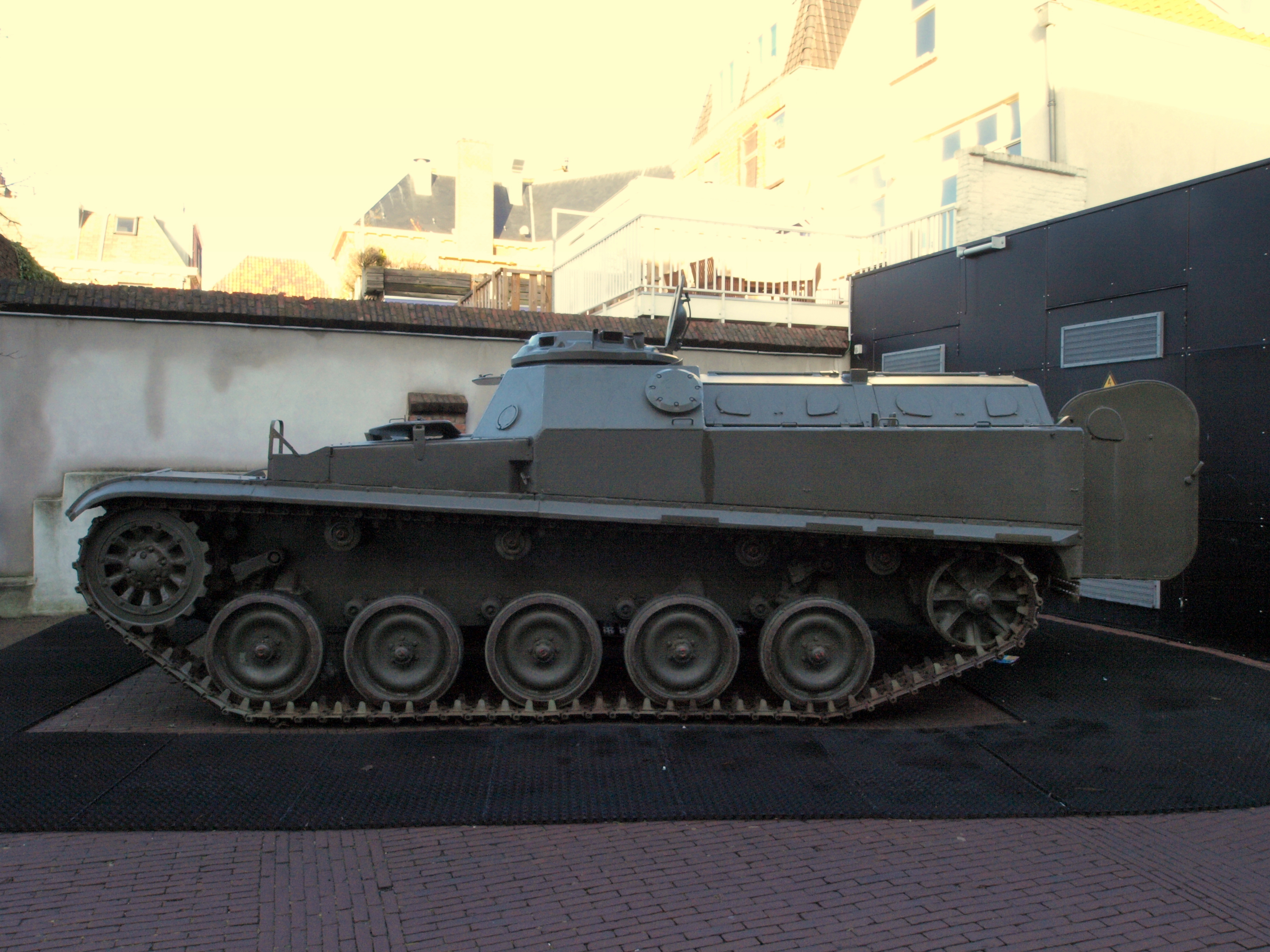 AMX 13 pantserrups infanterie (pri) of the Dutch army.